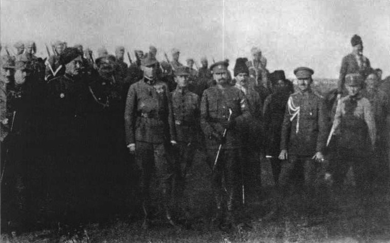 A photo of colonel Petro Bolbochan with Wilhelm Habsburg